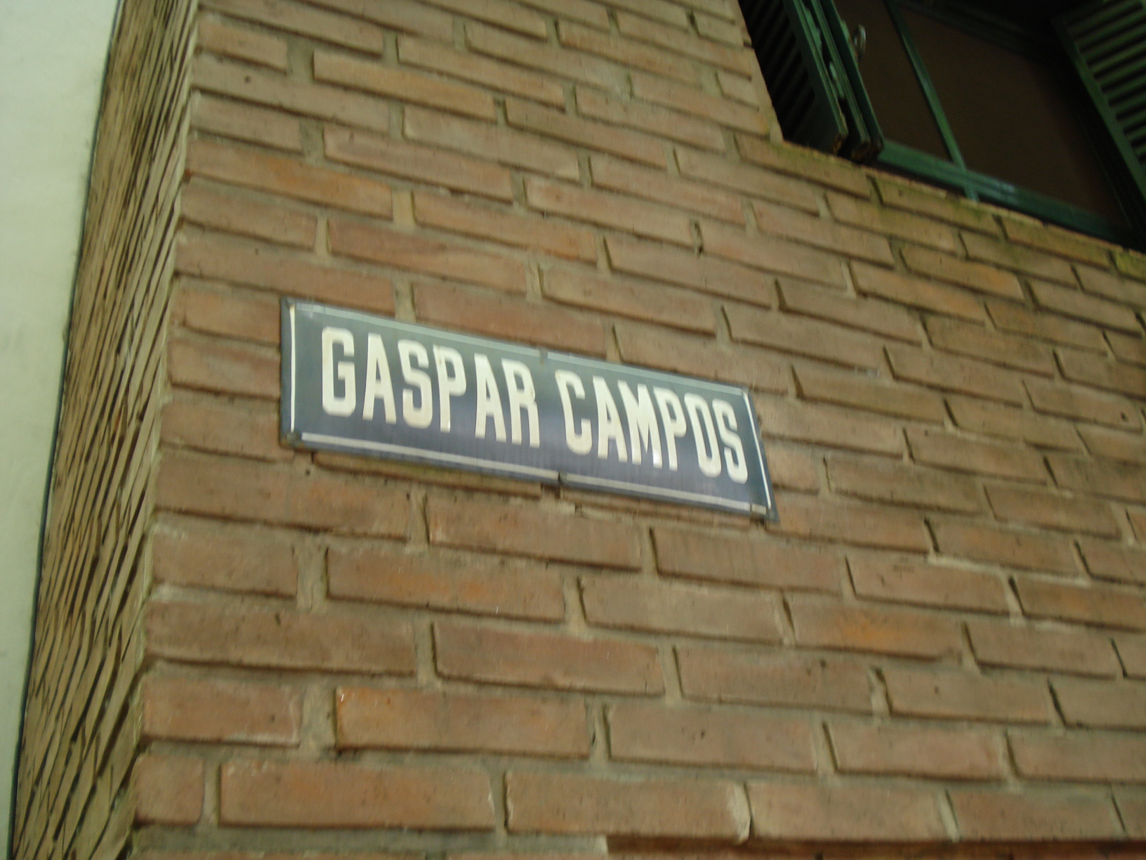 Gaspar Campos street in Vicente López, Bs. As. Province, Argentina.